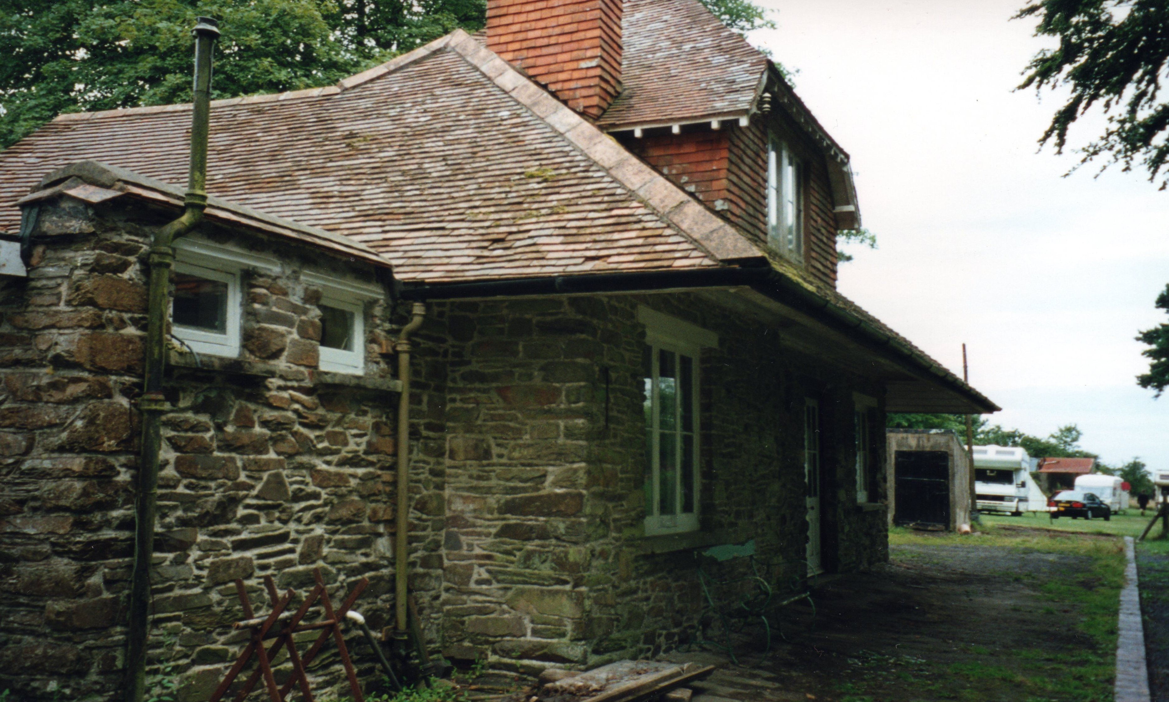 Woody Bay Station Platform and Building detail, in 1996 Photograph taken by: Martyn de Young